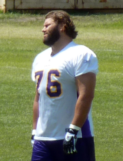 Steve Hutchinson, while a member of the Minnesota Vikings, at the Vikings' 2009 Training Camp, Mankato, Minnesota, USA.